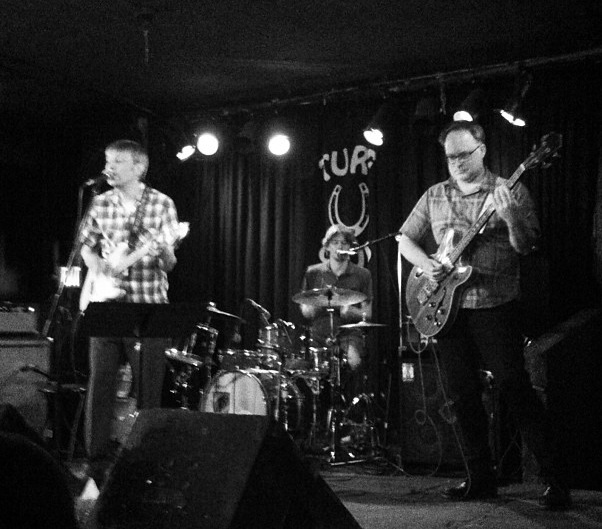 Musical group The Hang Ups performing live at the Turf Club in St. Paul, MN on May 30, 2013